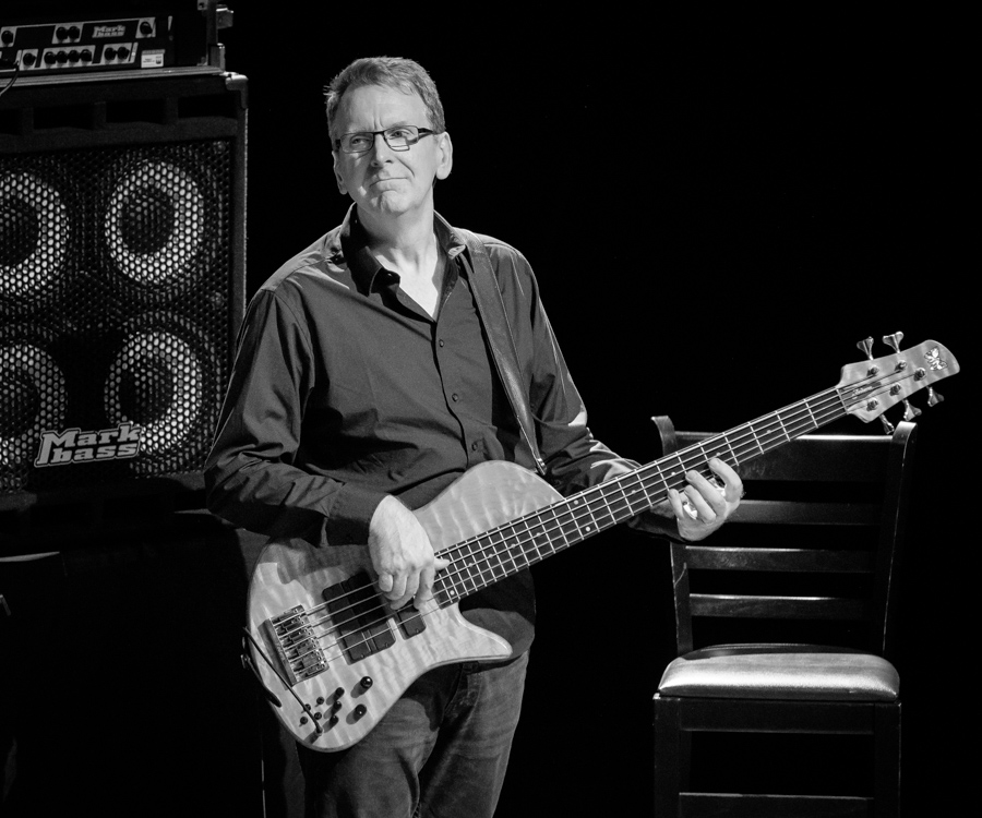 Tom Kennedy in a concert with Mike Stern and Randy Brecker in Kongsberg Musikkteater. The concert was part of Kongsberg Jazzfestival and took place on 07. July 2018 in Kongsberg. Lineup:Mike Stern (guitar)Randy Brecker (trumpet)Tom Kennedy (bass guitar)Dennis Chambers (drums)